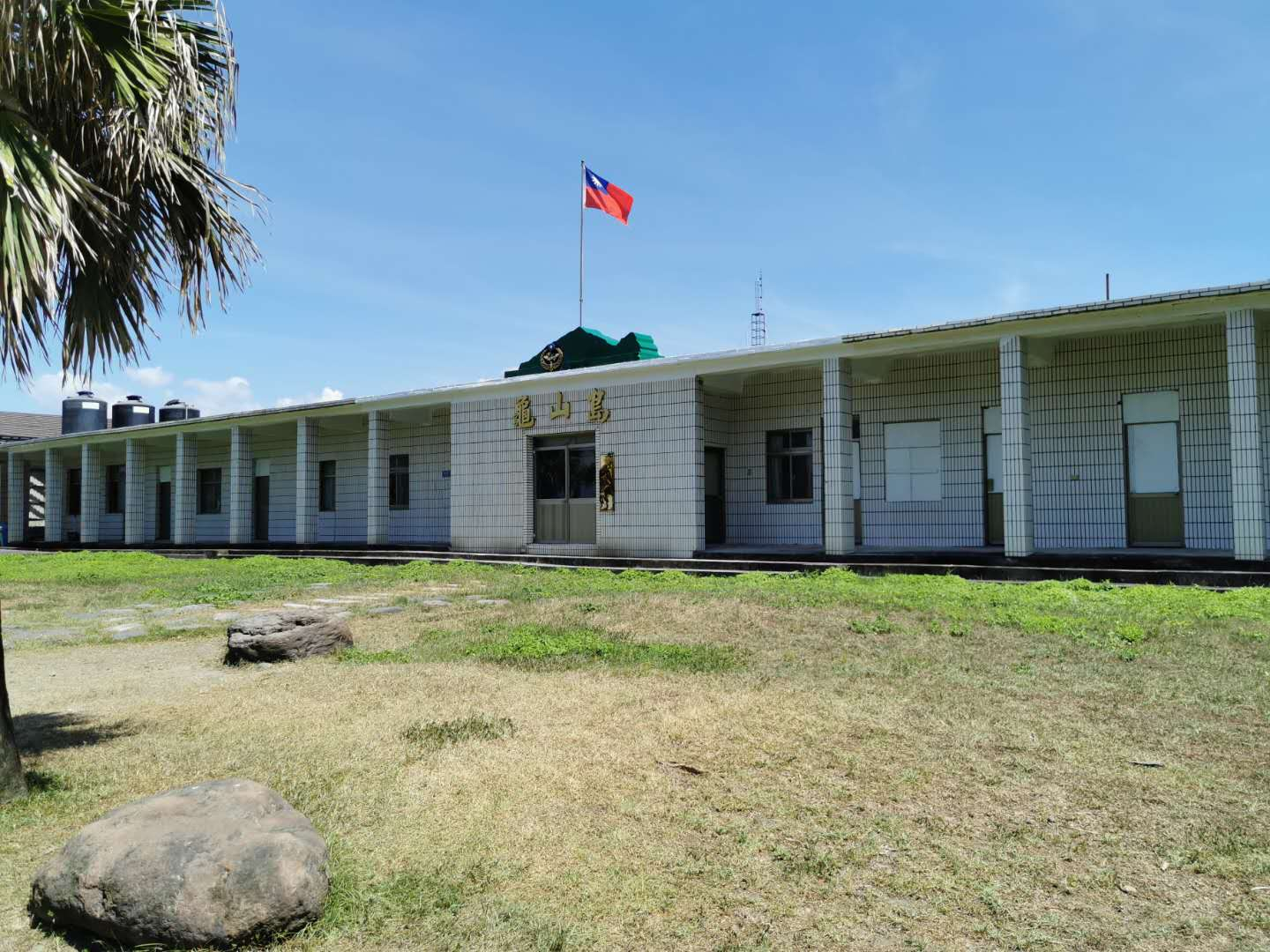 Former primary school location.